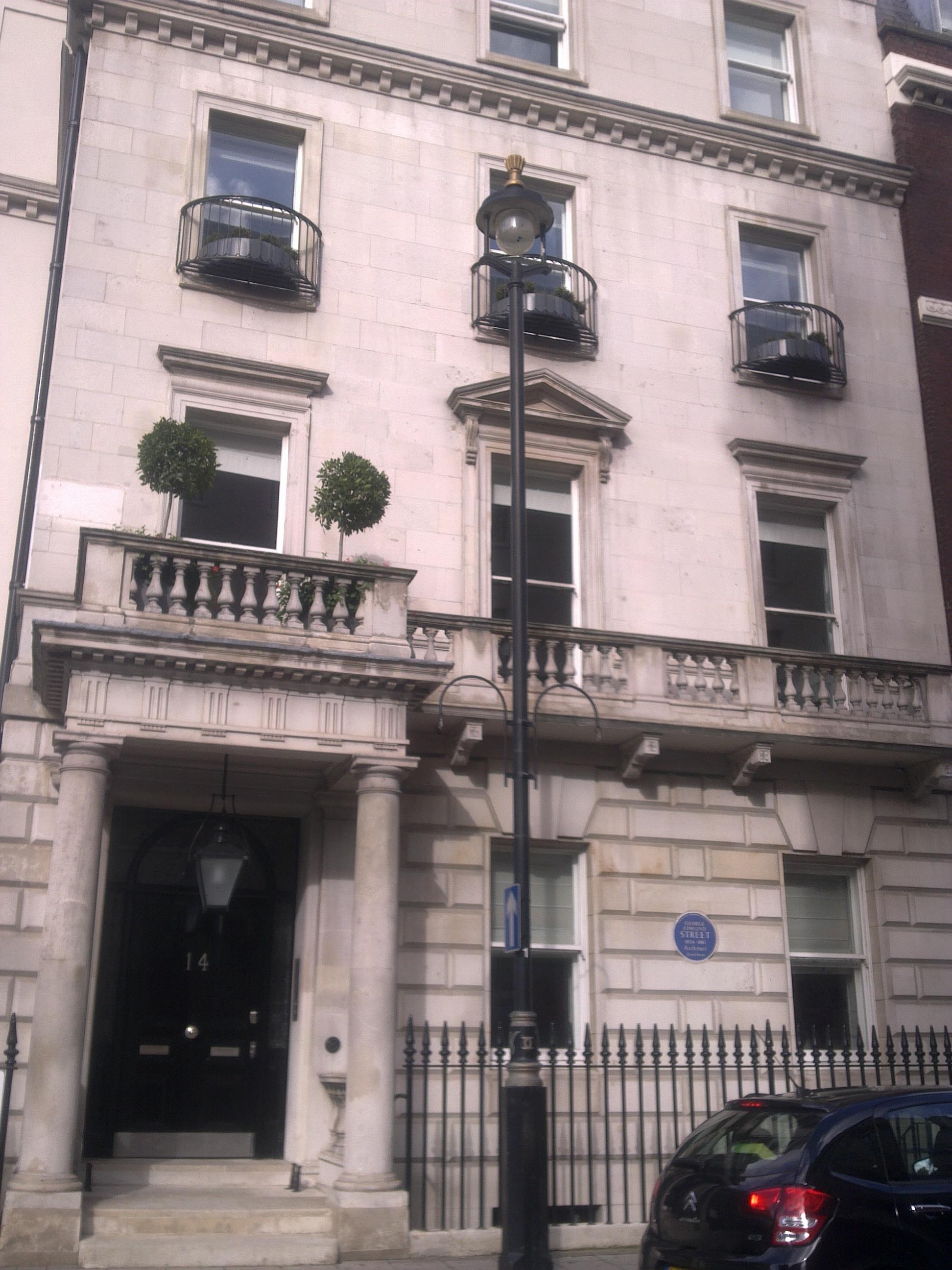 Embassy of Haiti in London